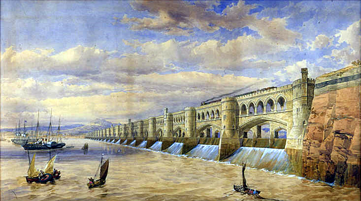 Thomas Fulljames's watercolour depicting his plans for the Severn Barrage.